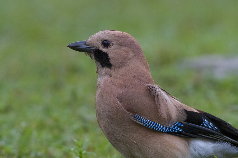 The species Eurasian Jay had been photographed at Dugalbitta, Chamoli, Uttarakhand, India on 13th June 2013 during the bird photography tour of GoingWild.